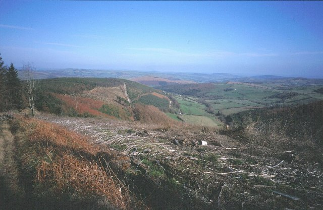 Radnor Forest. Radnor Forest is a hunting forest and has long been without much tree cover. However the northern and eastern slopes of the central block of hills was chosen as one of the first sites to be planted by the Forestry Commission in the 1920s. View down towards Cascob.